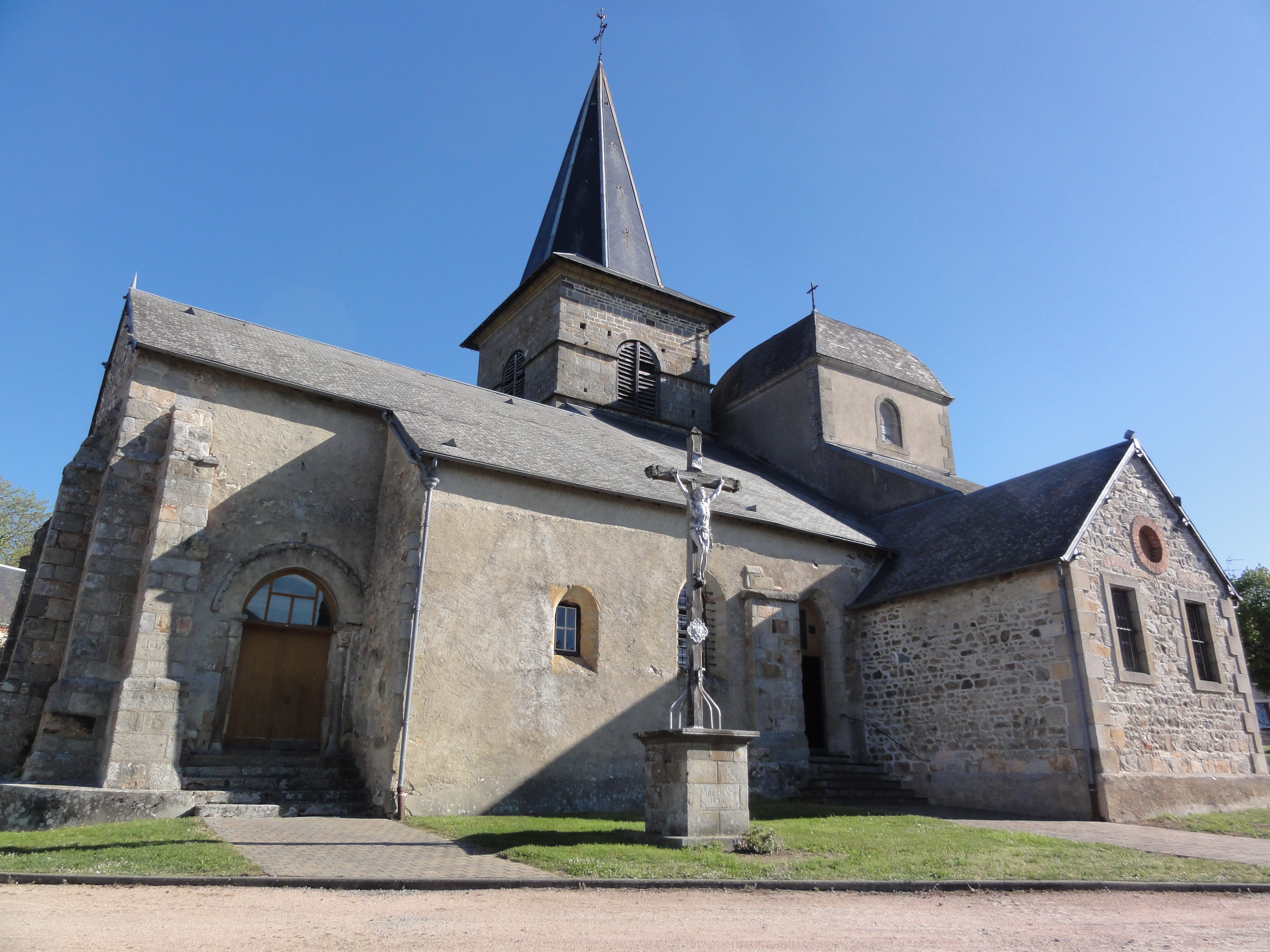 Saint-Maurice-près-Pionsat (Puy-de-Dôme) église extérieur